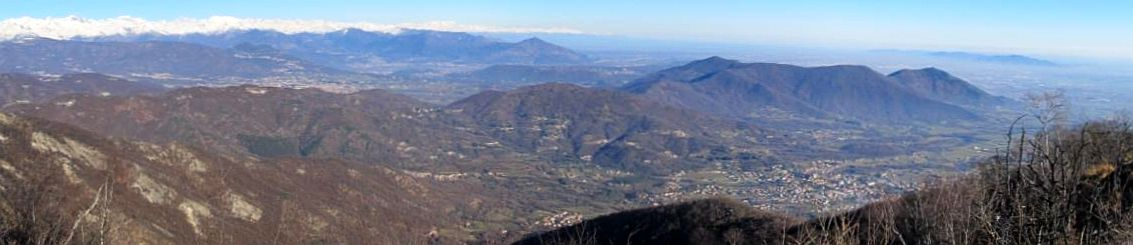 Val Chisola: panorama from Monte Brunello (Cottian Alps, TO, Italy). In the background mount Musinè (centre) and Superga.